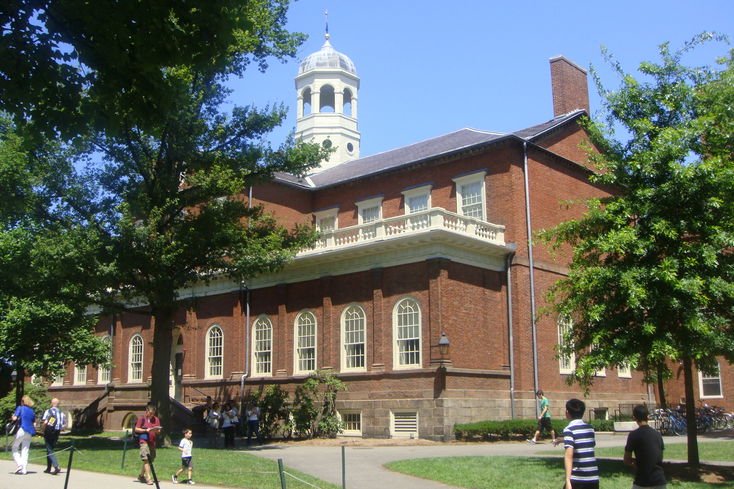 Harvard Hall, Harvard University, rebuilt in 1764-1766, is the fourth oldest standing building in the Harvard campus